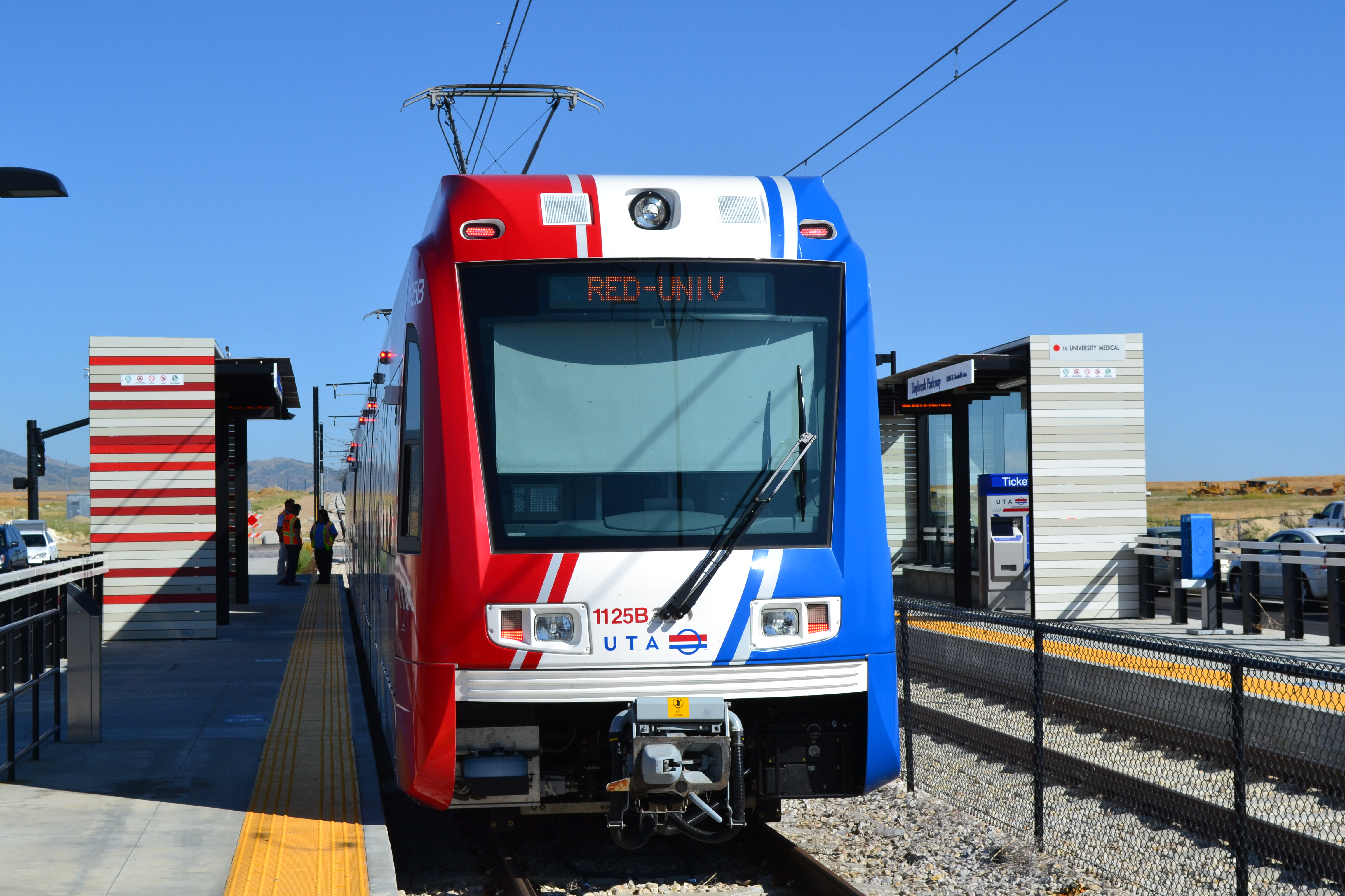 A Red Line train sits at its southern terminus at Daybreak Parkway. This photo was taken on the first weekday of service for the Red Line extension to Daybreak and the Green Line extension to West Valley. (The station's shelters are part of an untitled musical system artwork by Jim Green.)